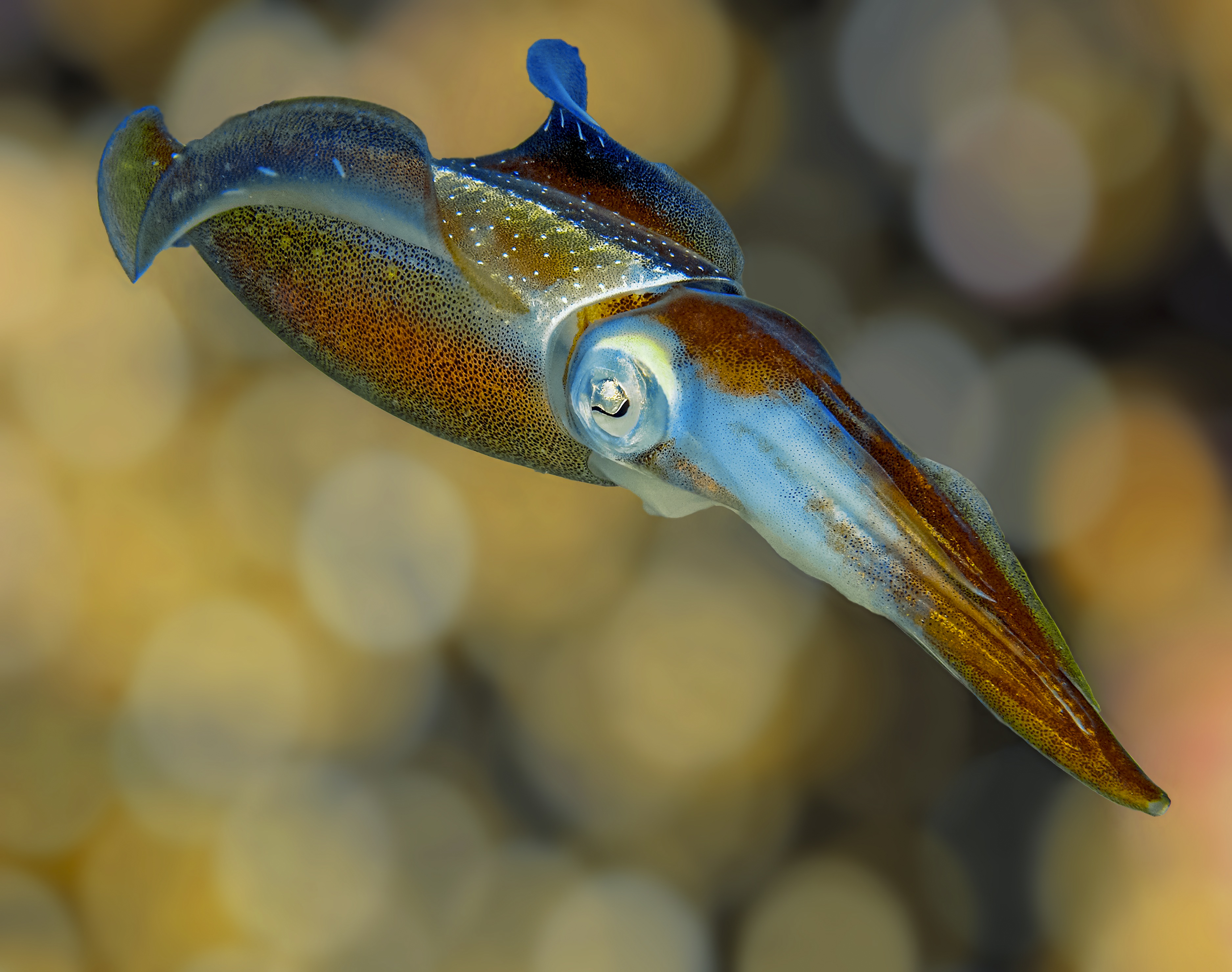 Caribbean Reef Squid Sepioteuthis sepioidea, Bari Reef, Bonaire, BES Islands.